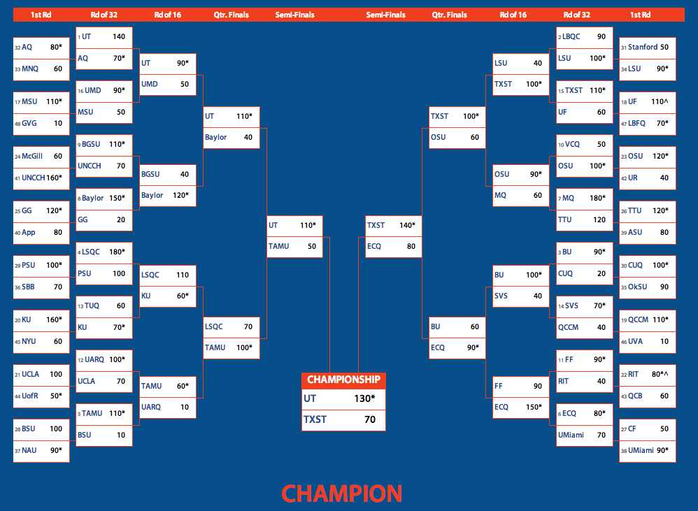 The IQA World Cup VII bracket with results. This just shows the teams that played at the IQA World Cup VII and their scores. The image itself consists solely of lines, rectangles and some words that are either the name of the bracket (ex. round 32) or of the team and their score (ex. University of Texas 130*).